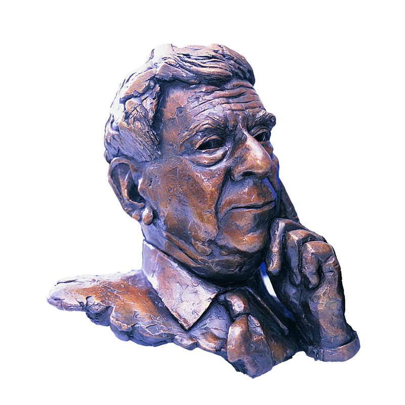 Sir Roy Caine bronze bust by Laurence Broderick